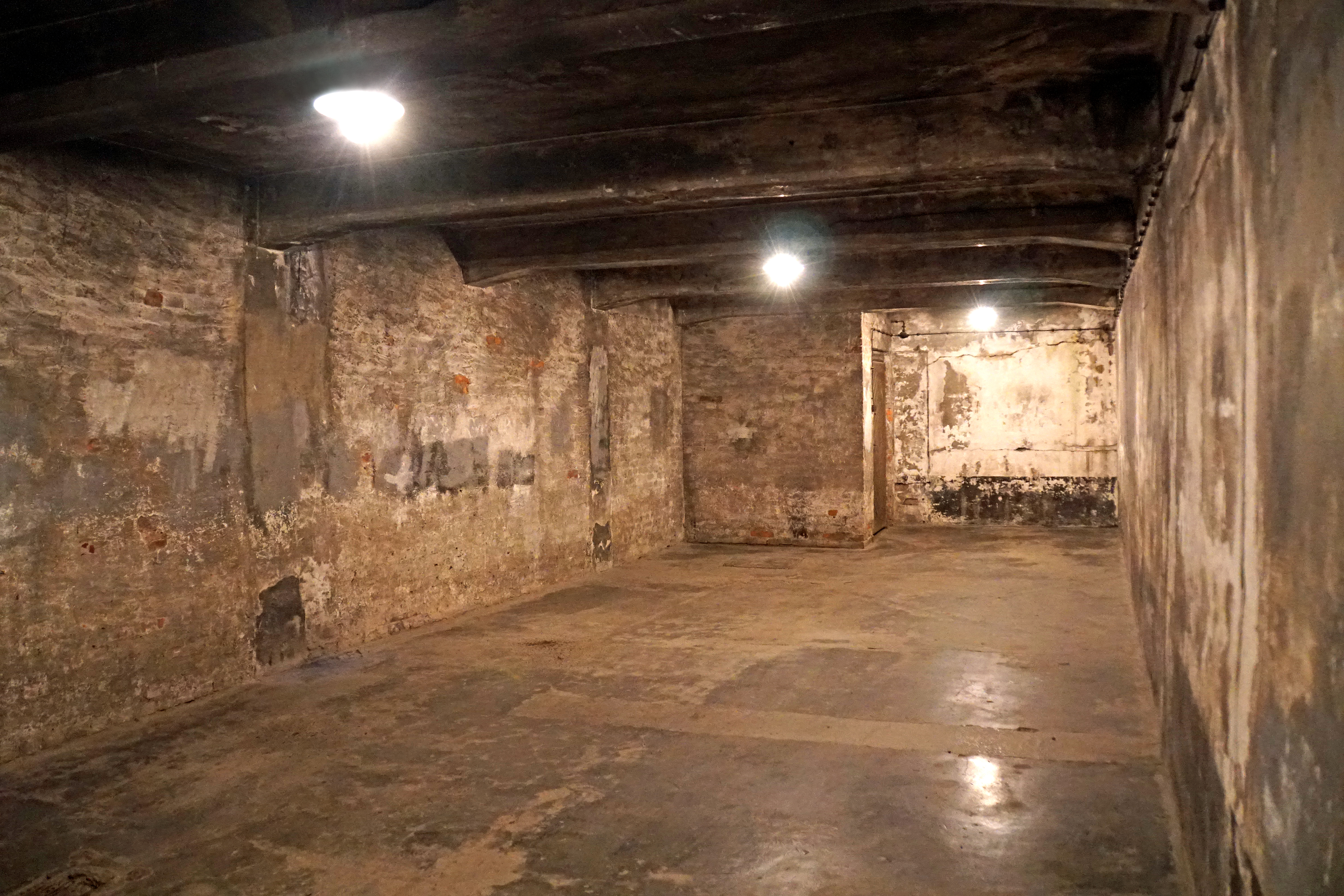 PLEASE, NO invitations or self promotions, THEY WILL BE DELETED. My photos are FREE to use, just give me credit and it would be nice if you let me know, thanks. In 1941 this, the largest room, was adapted as an improvised gas chamber, the first in Auschwitz. It is said it could take up to 20 minutes for people to die. Before the war this building was a munition bunker. From 15 August 1940 to July 1943 the SS used it as a crematorium. In 1941 the largest room was adapted as an improvised gas chamber, the first in Auschwitz. Many thousands of Jews were murdered within hours of their arrival, as were many Soviet POWs, and sick prisoners. When Birkenau contained more purpose-built gas chambers this building was subsequently utilized for storage and then as a air-raid shelter for the SS.